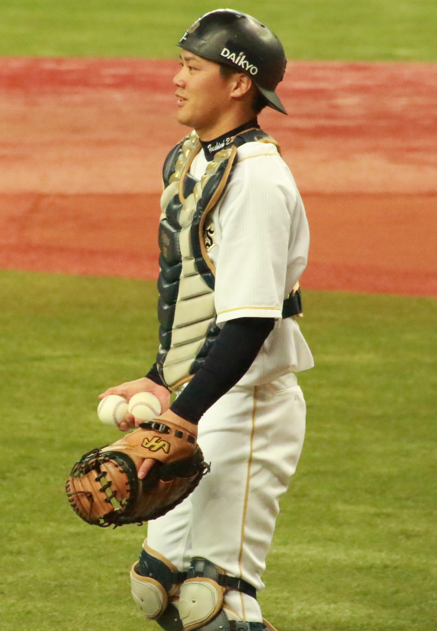 Torai Fushimi, catcher of the Orix Buffaloes, at Osaka Dome.